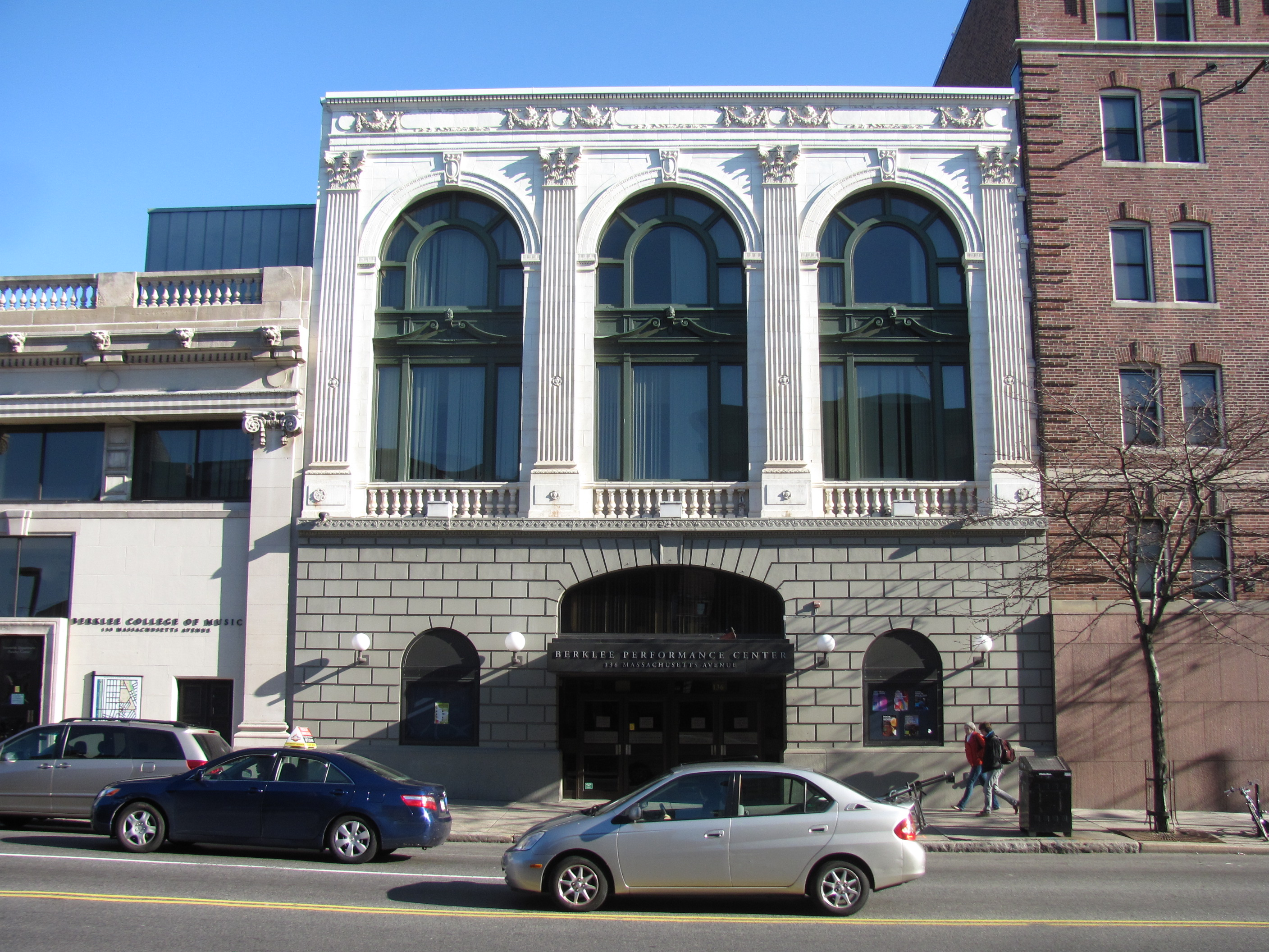 Berklee Performance Center, Boston Massachusetts